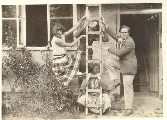 Tomlin poses with his lover Dora Carrington and two others by a ladder outside of a house.